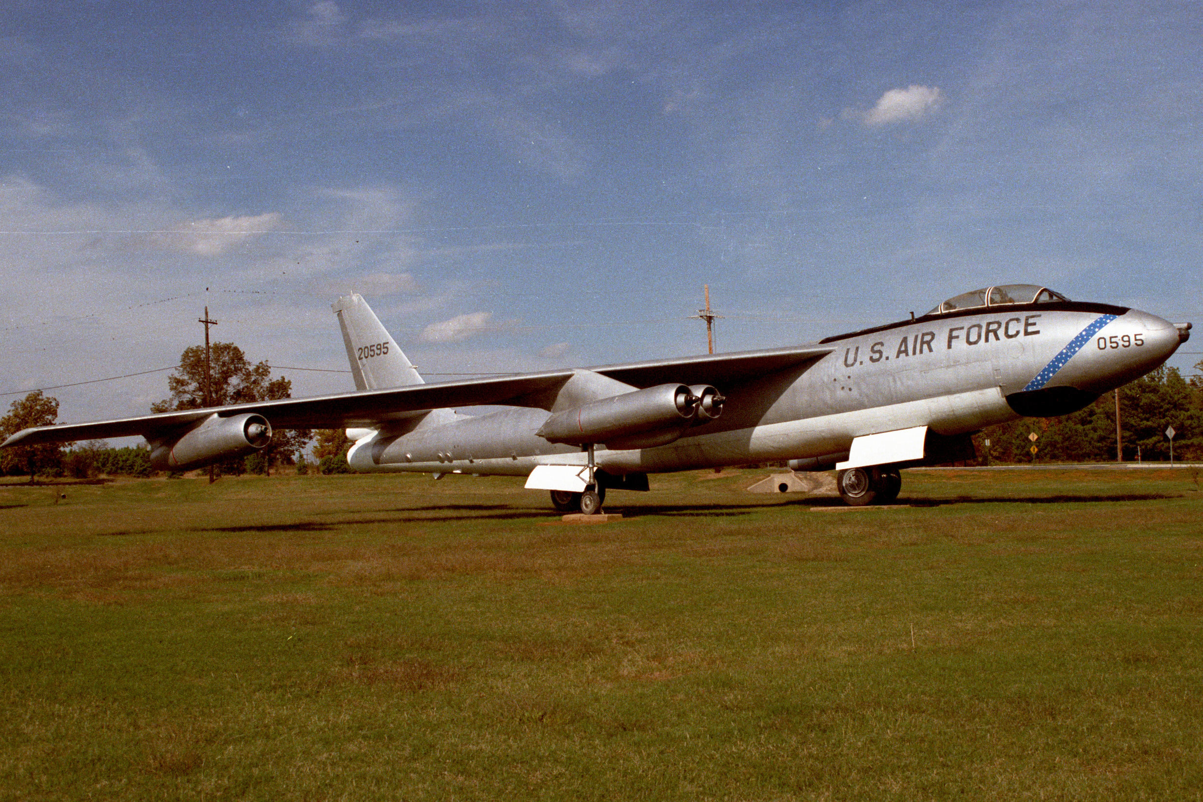 B-47 Stratojet. The aircraft was on permanent static display at Little Rock Air Force Base in Jacksonville, Arkansas, and it apparently still is. The photo was shot on color print film in 1984 and digitized from the 35mm negative on 18 Nov 2007. The camera was a Minolta X-700 SLR.